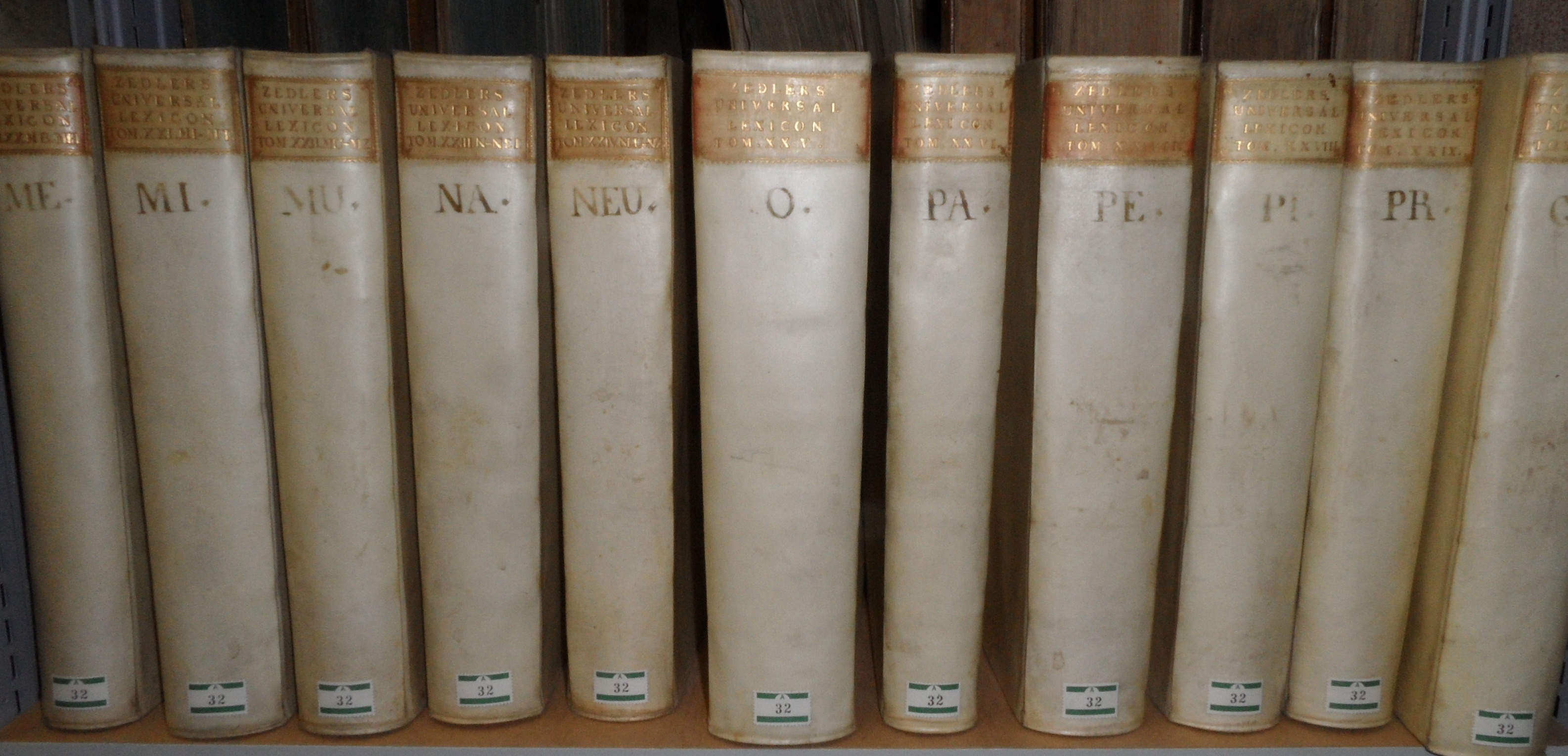 Some volumes of "Grosses vollständiges Universal-Lexicon Aller Wissenschafften und Künste ..." published by Johann Heinrich Zedler, binding of the time, in the Central Library of Solothurn, Switzerland, call number A II 32.